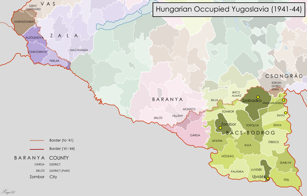 Map of the areas of Yugoslavia occupied by Hungary between 1941-44